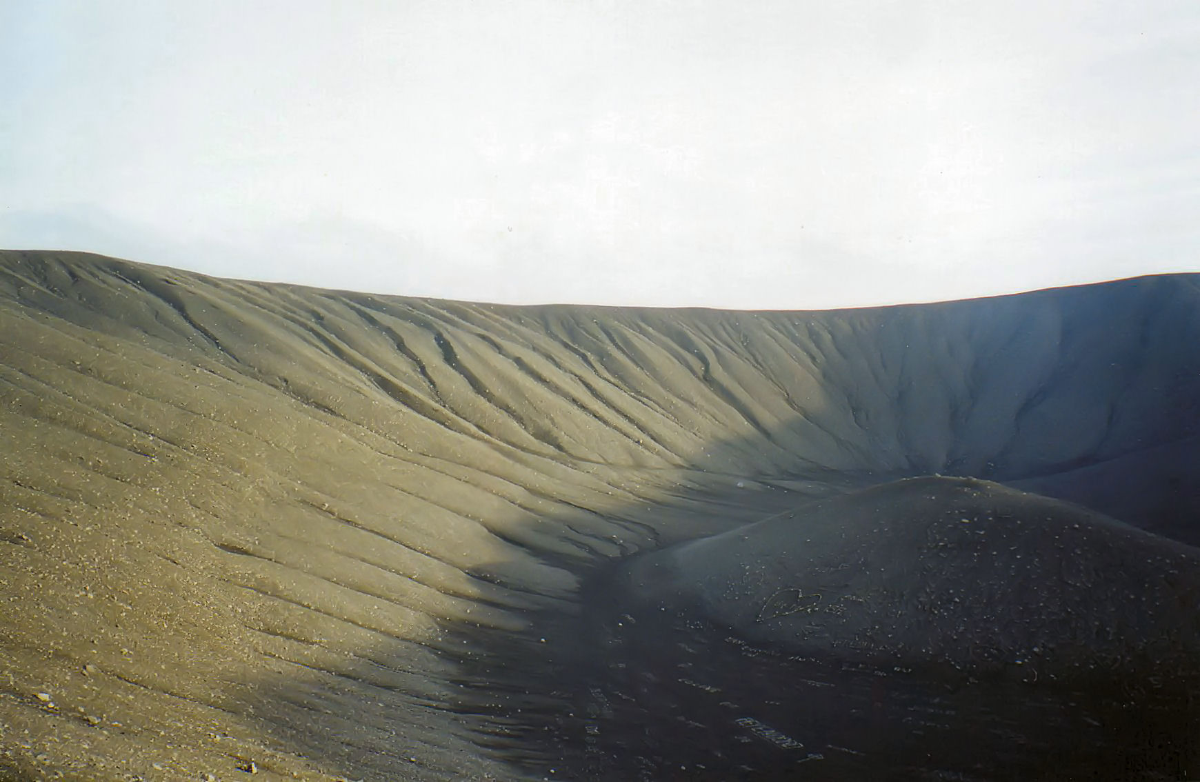 picture sshot by uploader